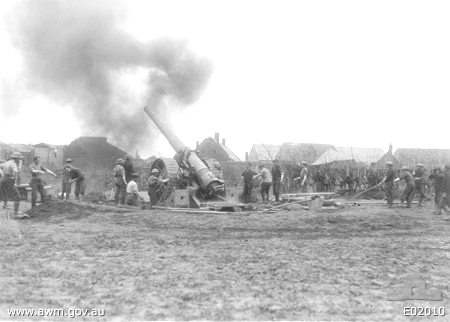 A 6 inch naval gun firing from the outskirts of Beaumetz-lès-Loges, in France, during the attacks by the Australian troops at Bullecourt. Comment : This was part of the preliminary bombardment for the Second Battle of Bullecourt. See also : Image:6inchMkVIIGunBeaumetz21April1917.jpeg NOTE : This version of the photograph has brightness and contrast artificially increased to highlight details.